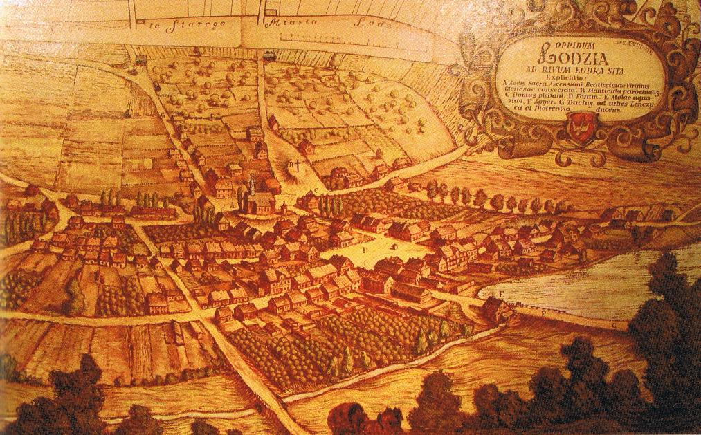 Panorama of rural Łódź from 1812.